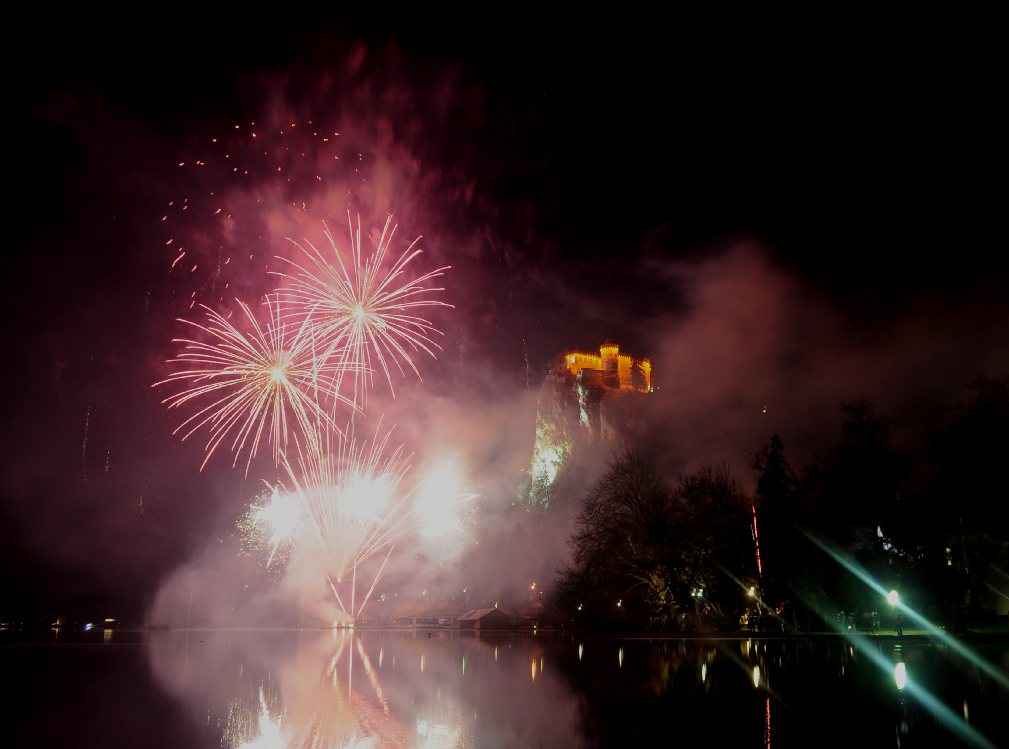 Bled firework (with Bled Castle in background) on New Year's eve 2013